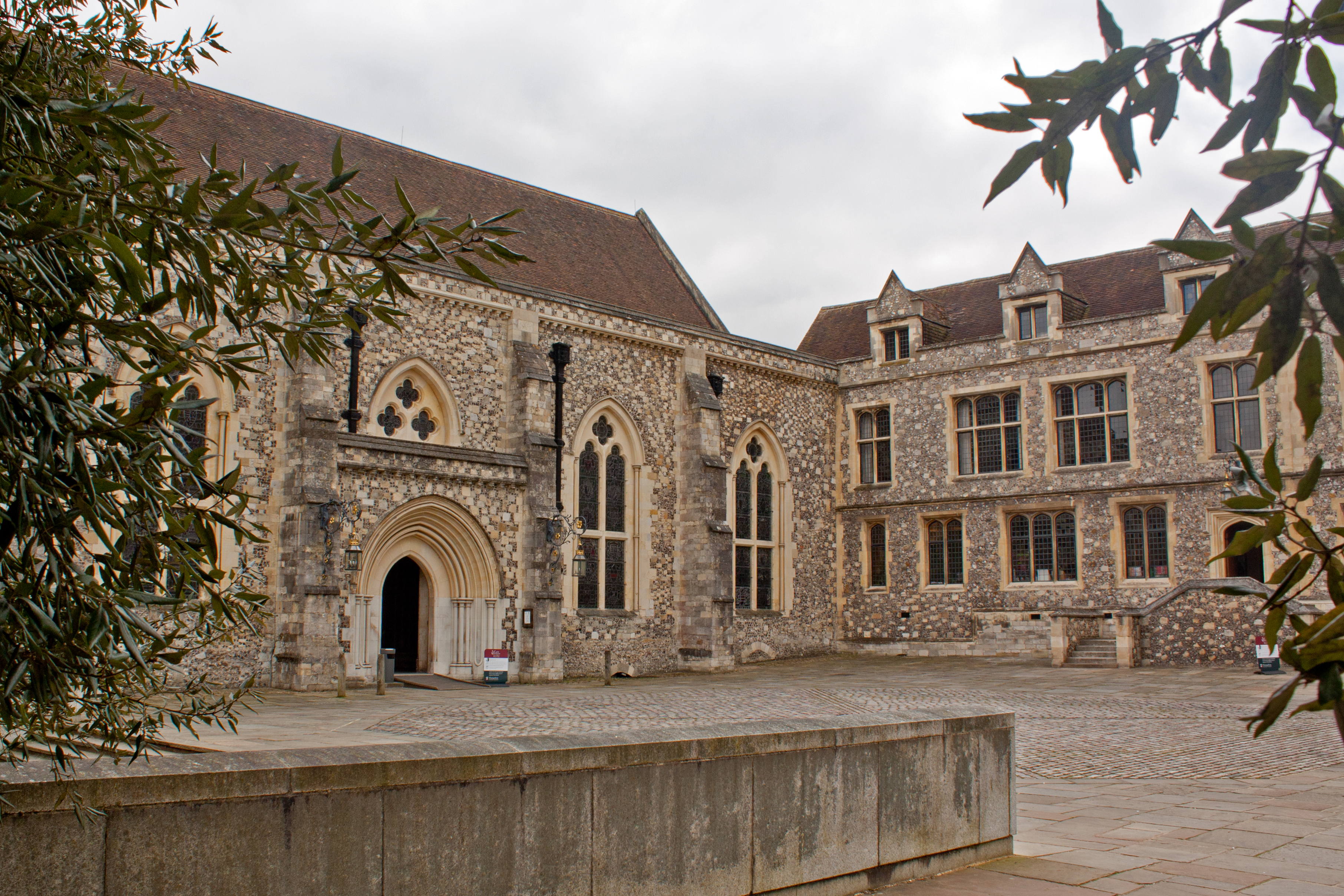 Great Hall, Winchester Castle